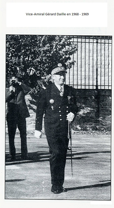 Gérard Daille, mon oncle en 1968